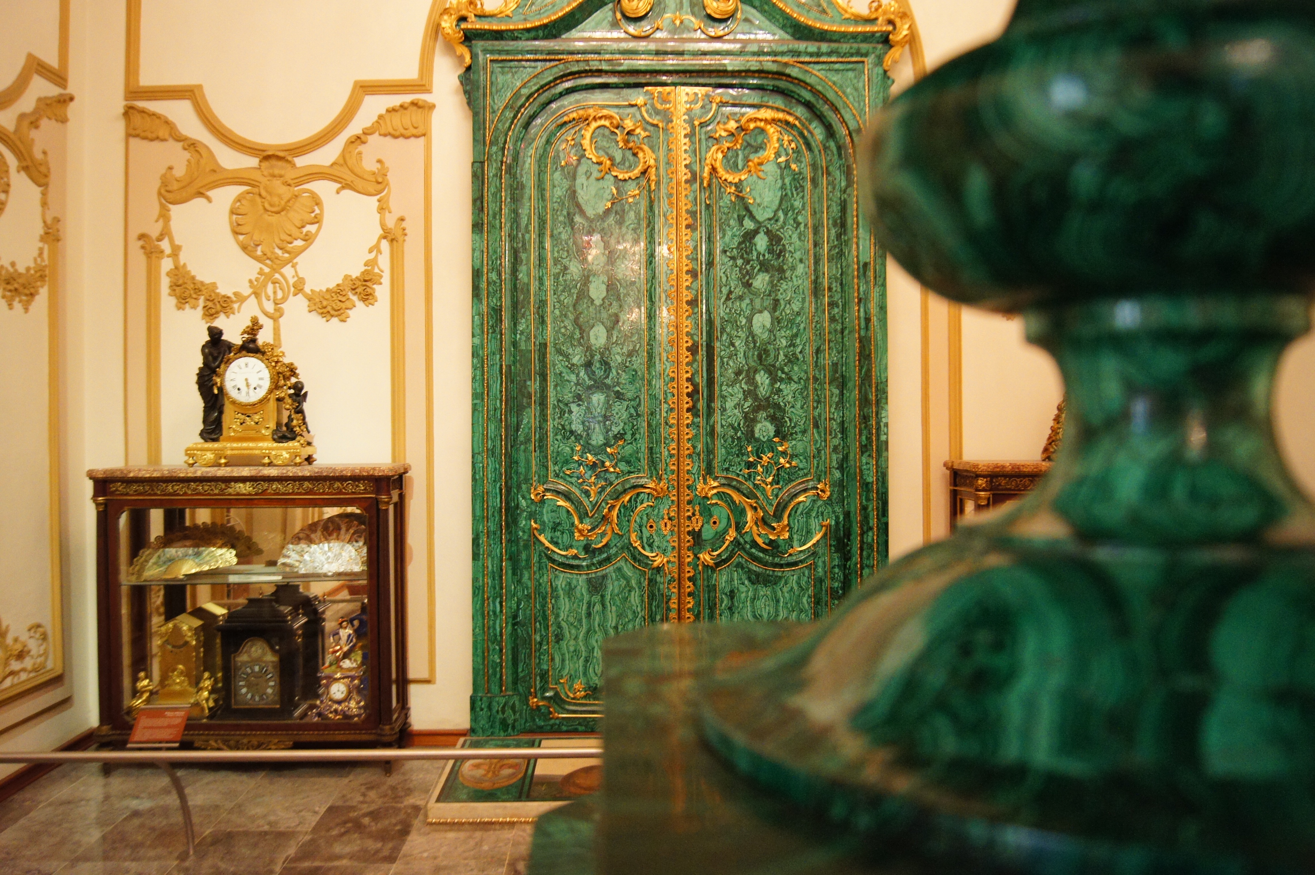 The Malachite Room in the Castillo de Chapultepec